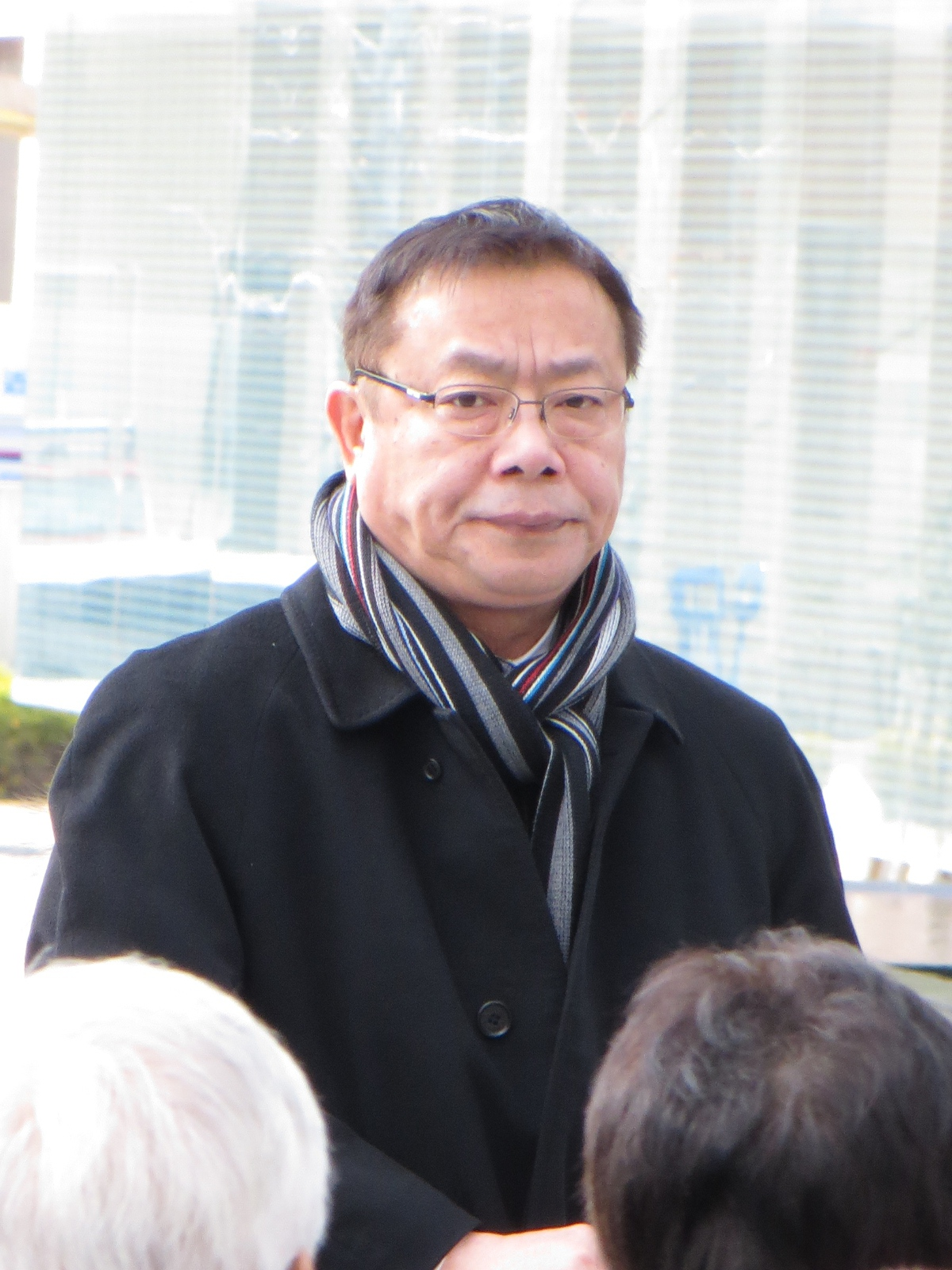 Koichi Tani (Member of the House of Representatives of Japan).